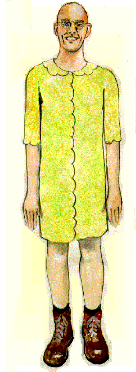 Illustration of Jay in the lucky green dress, by Steven